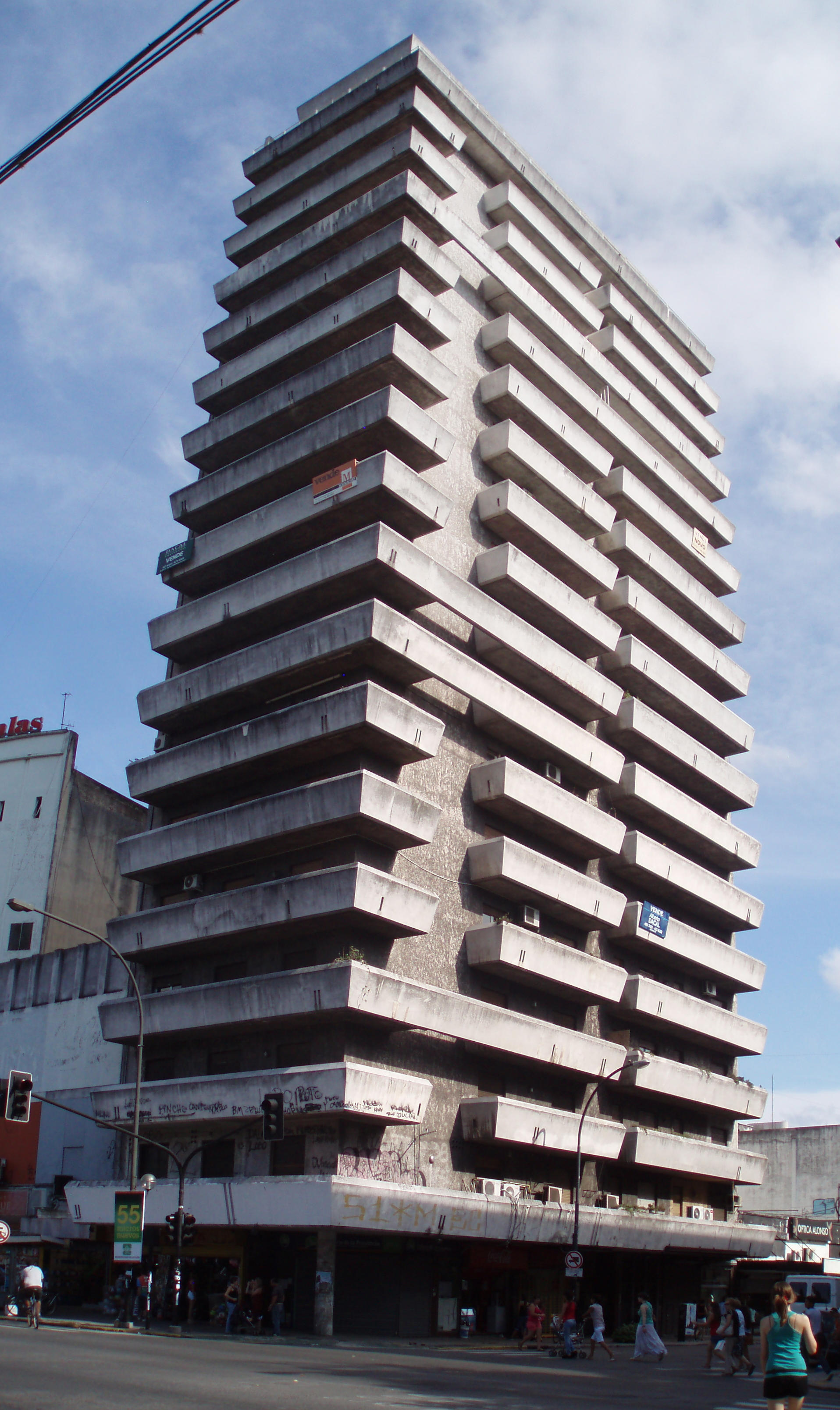 Edificio América, en la esquina de Avenida 7 y Calle 50, de La Plata (Argentina). Construido por la empresa CoAr S.A. en 1962.